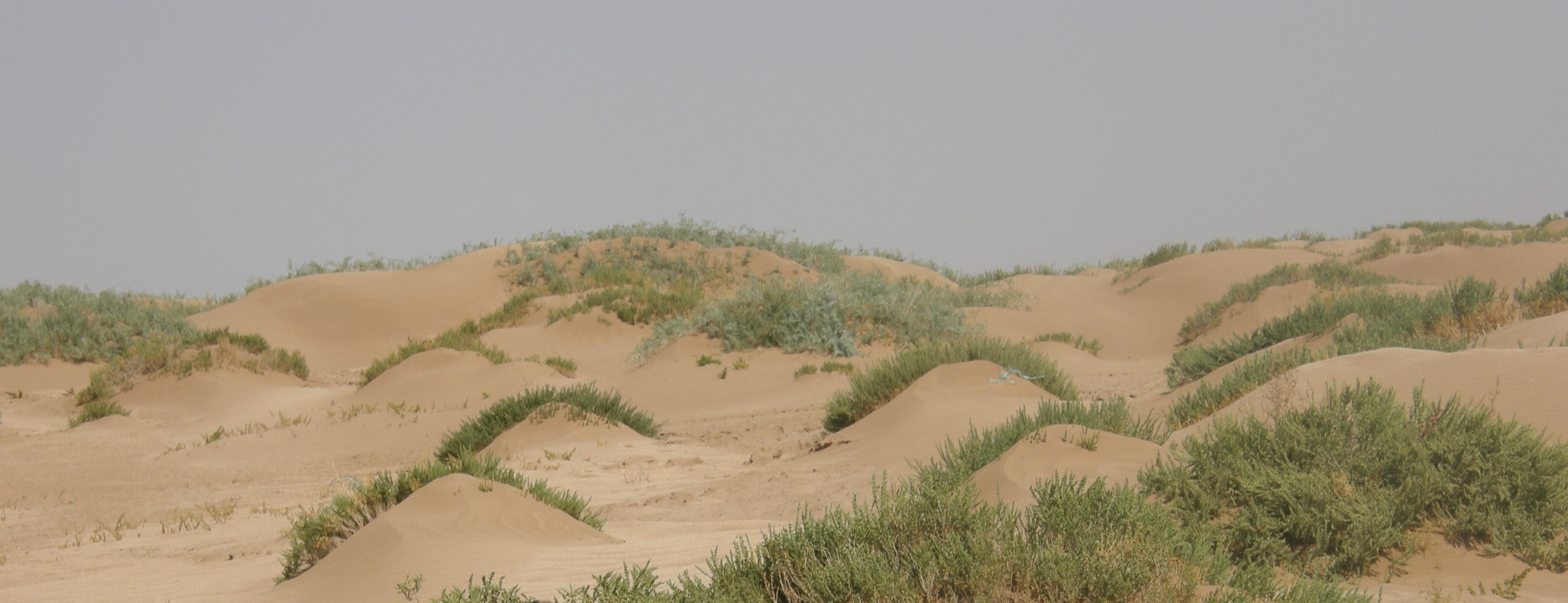 تپه های ماسه ای کویر میقان و گیاهان قره داغ